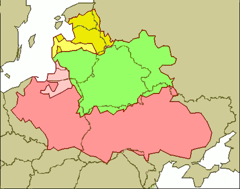 Polish-Lithuanian Commonwealth (1619) compared with today's borders